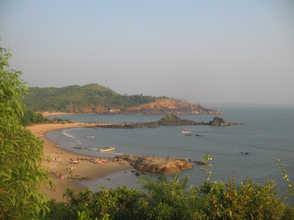 My own image